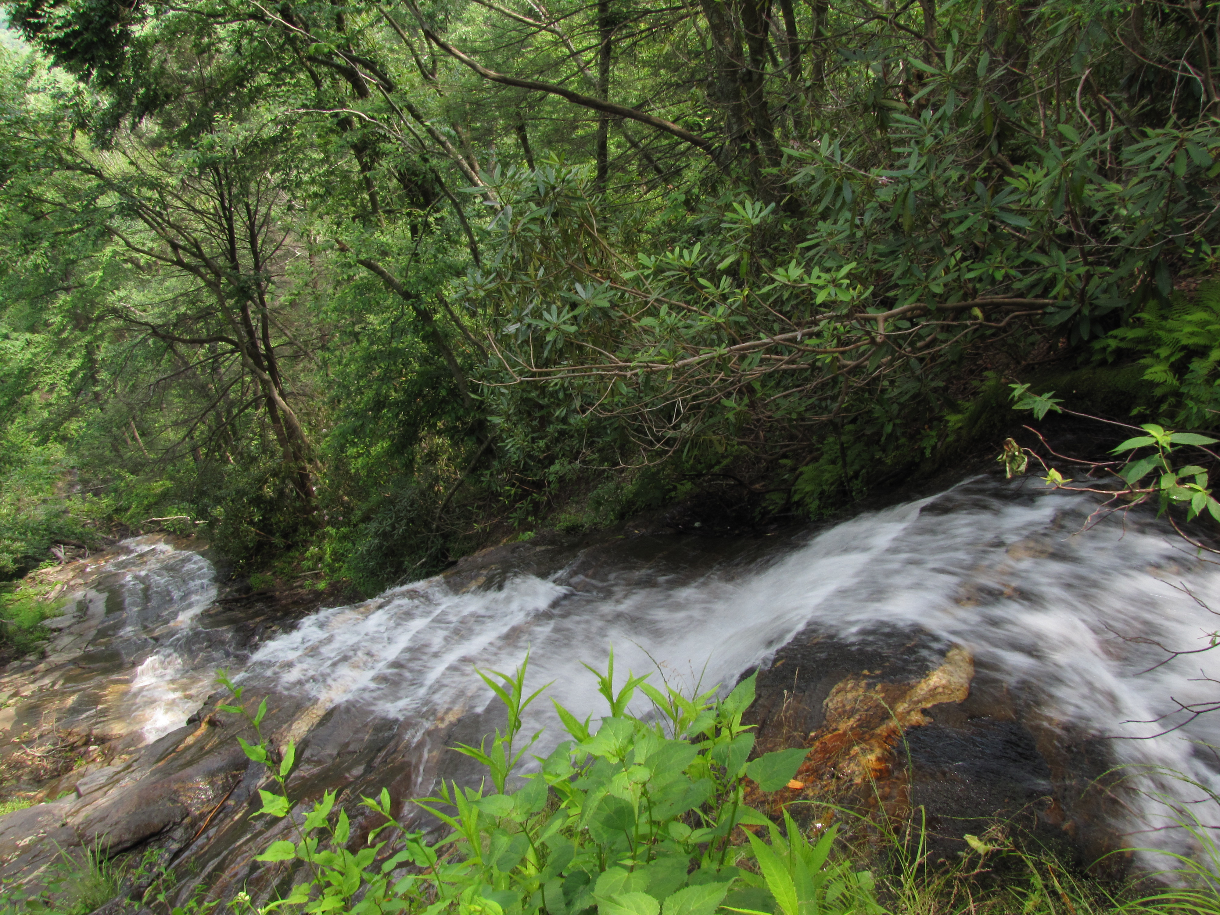 Shot of Cascades Falls on the Blue Ridge Parkway, looking down from the middle observation deck.